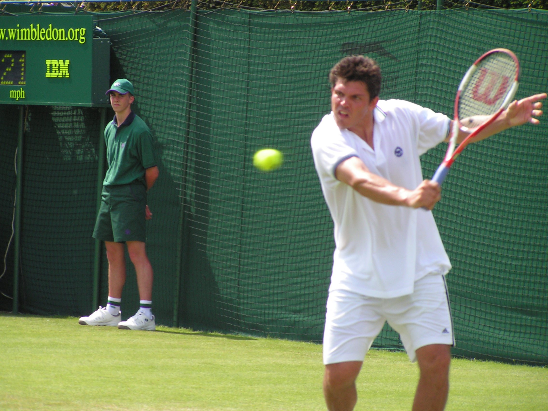 Taylor Dent returning a serve during the Wimbledon tournament in 2005.